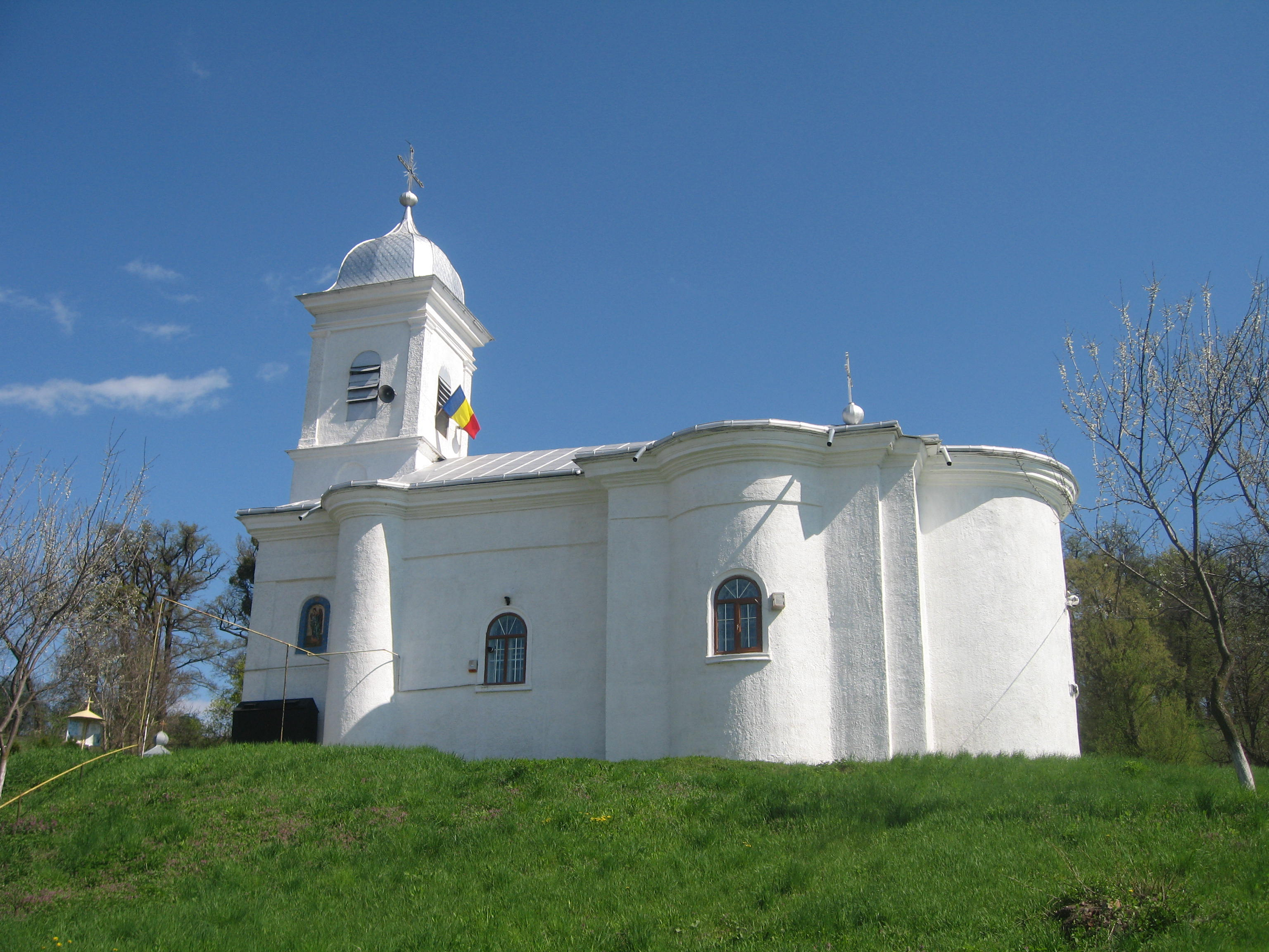 Biserica Pogorarea Sf. Duh din Dulcesti